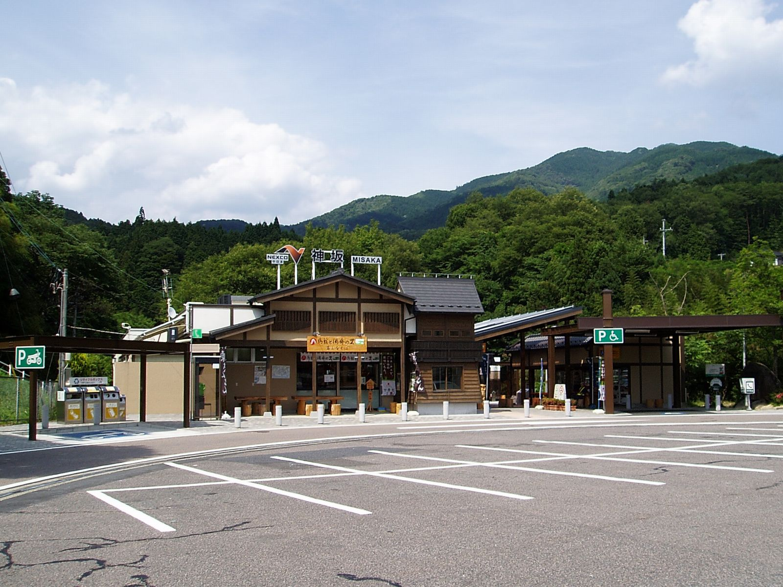 Misaka Parking Area on the Chuo Expressway eastbound line